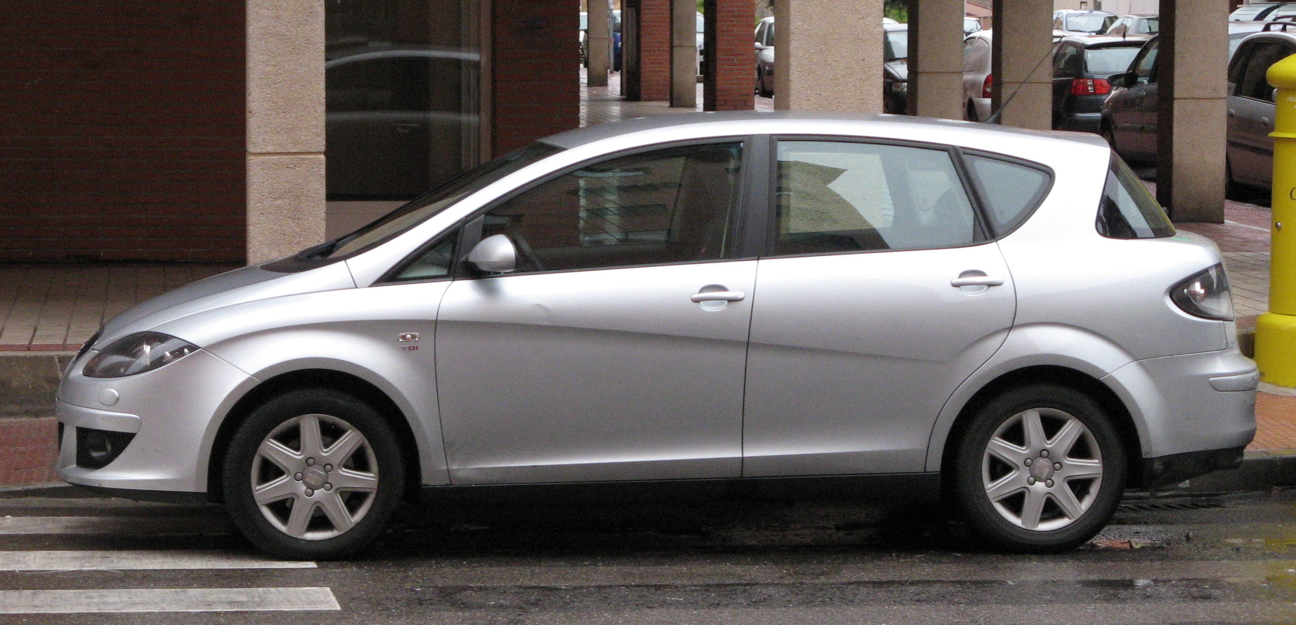 Seat Toledo